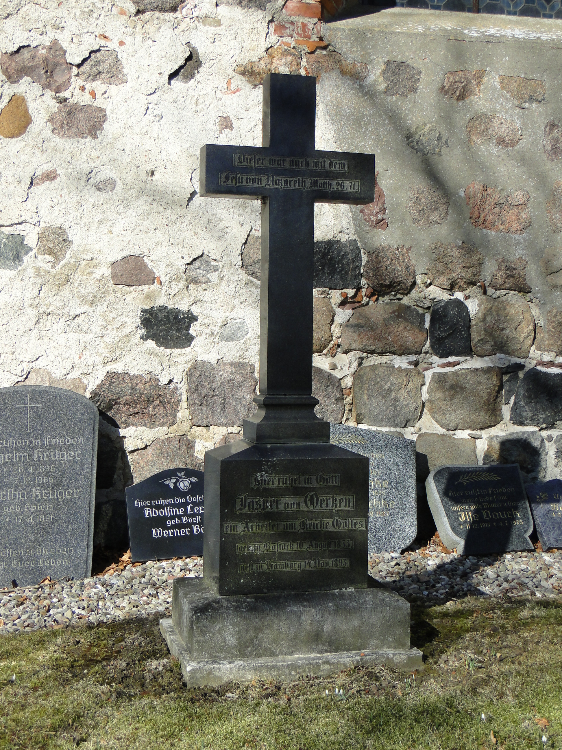 Gravecross at church in Leppin, district Mecklenburg-Strelitz, Mecklenburg-Vorpommern, Germany